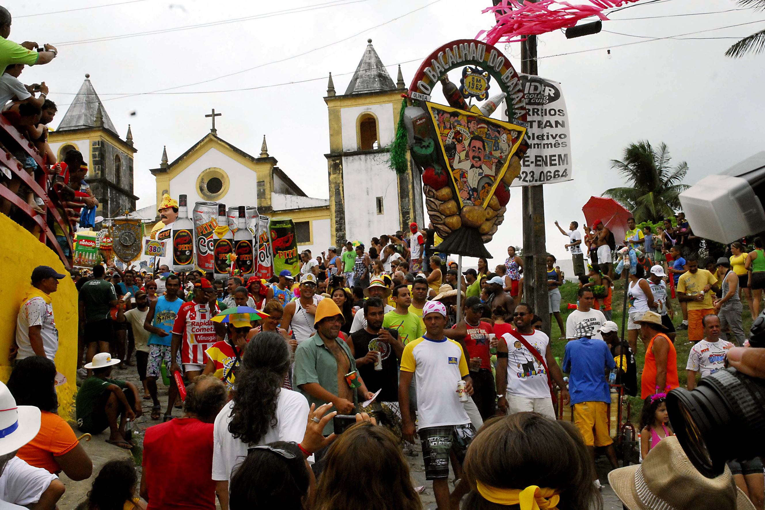 Bacalhau do Batata in Olinda Carnival, Pernambuco